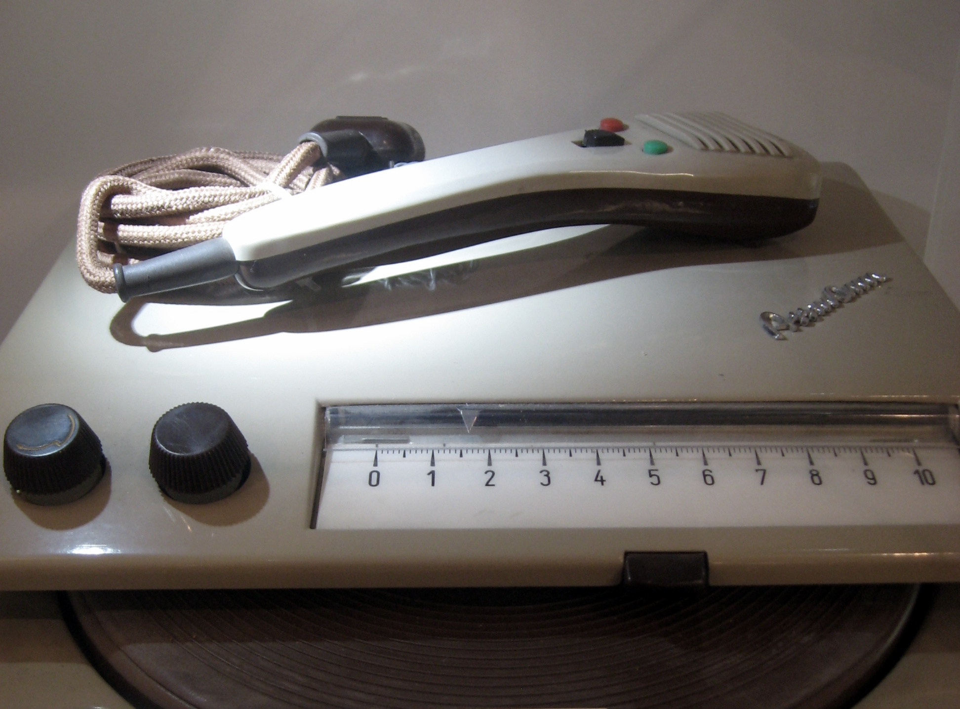 A magnetic dictation machine